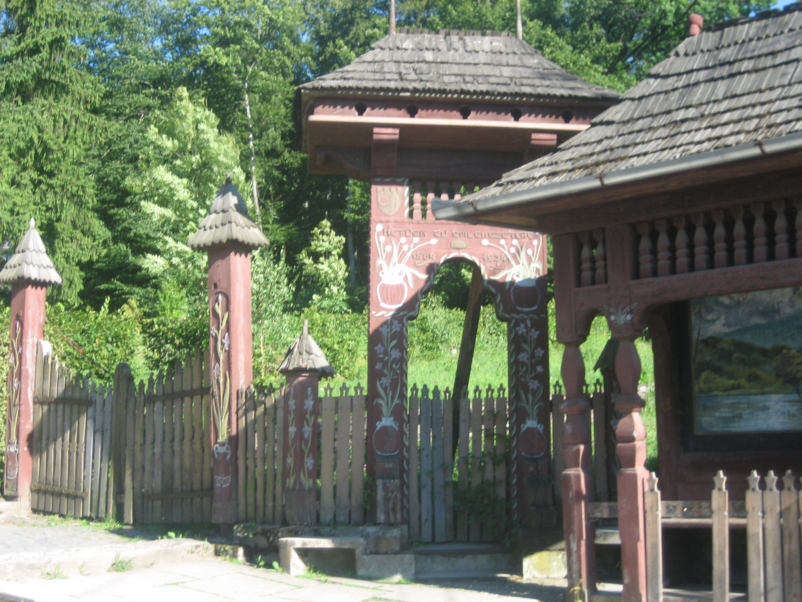 Székely gate in Szováta